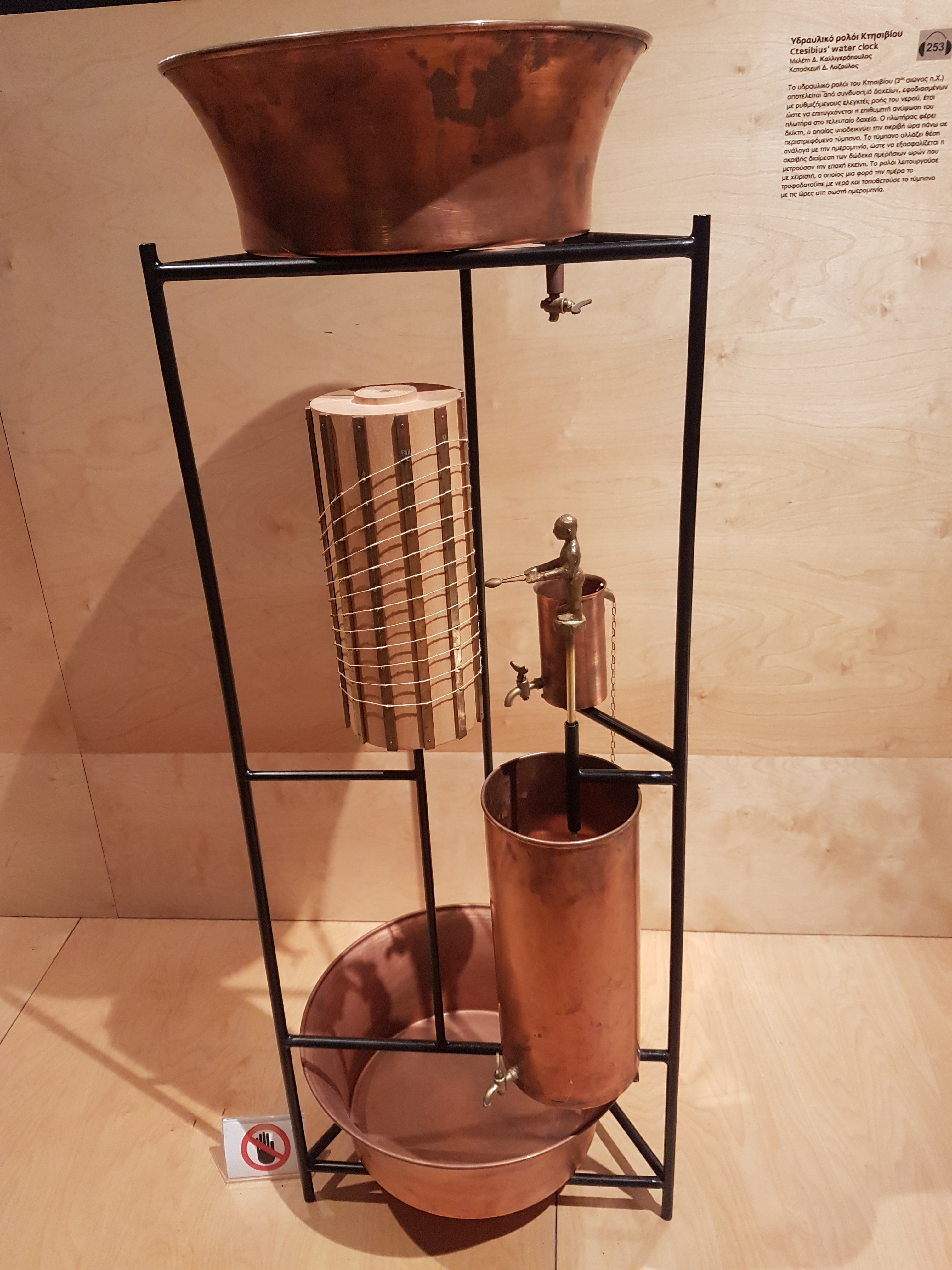 Ctesibius water clock, 3rd century BC, Alexandria (reconstruction). Thessaloniki Technology Museum